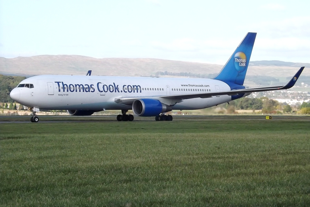 G-TCCB Boeing 767 Thomas Cook